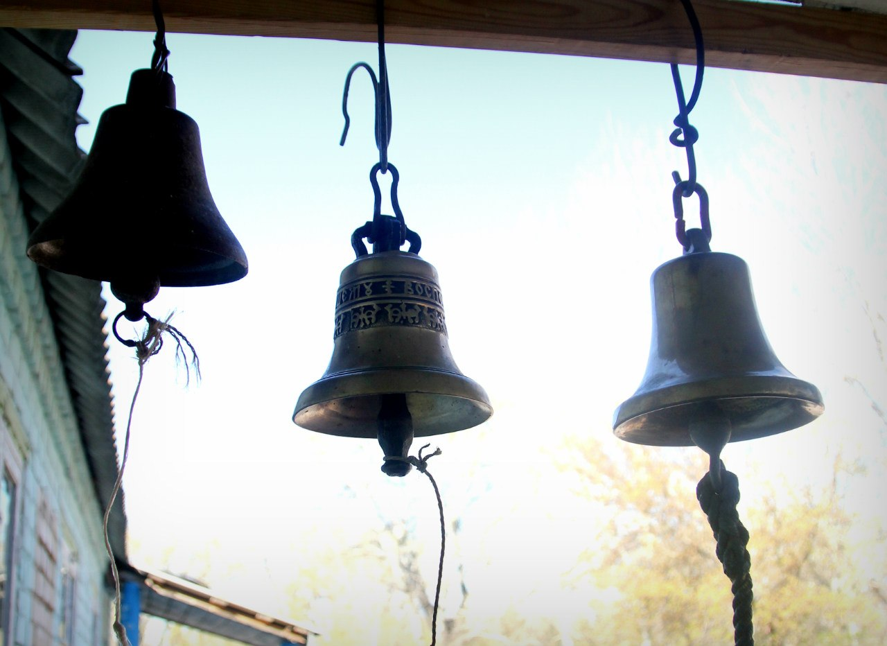 Зубовка